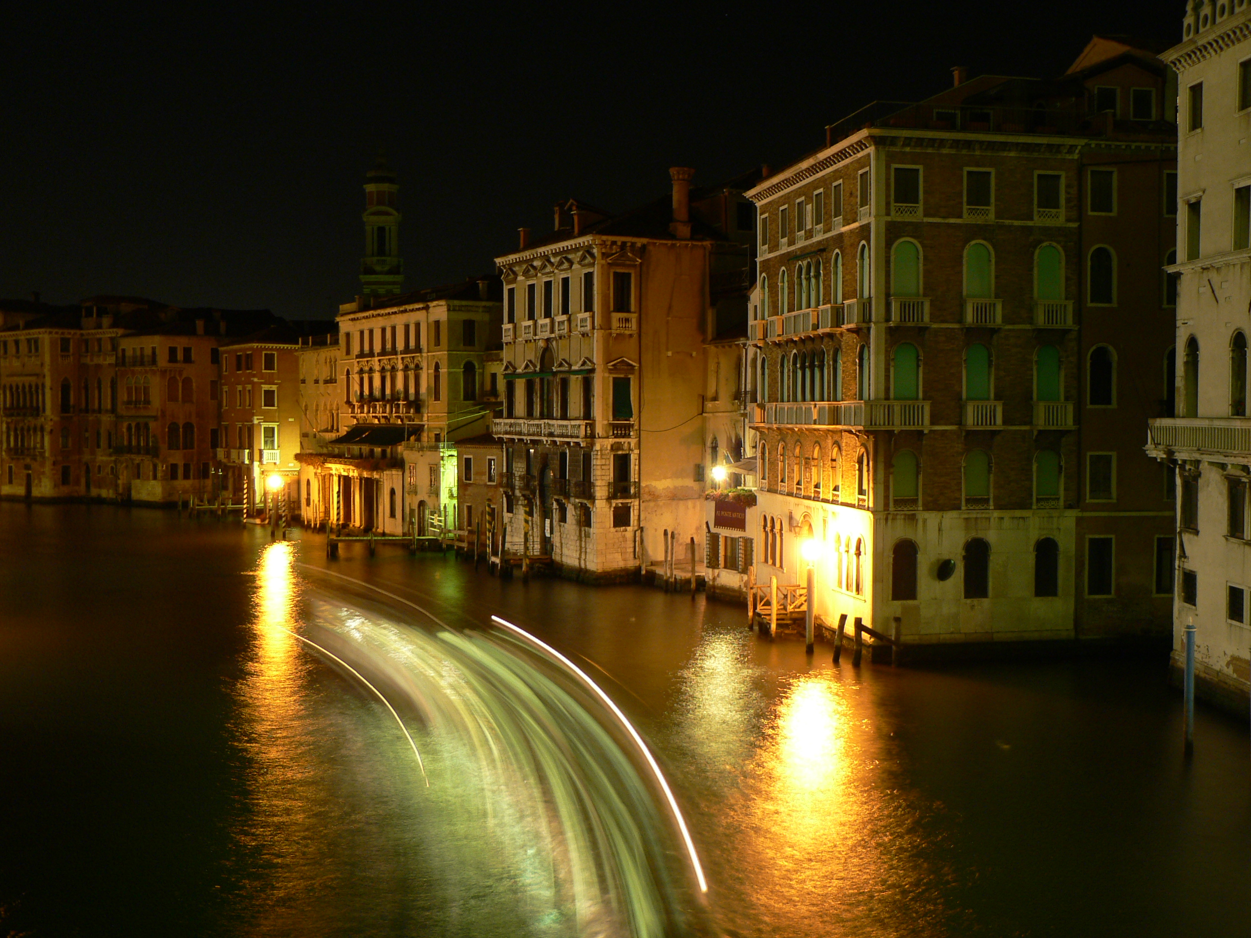 Venise (Italie), le grand canal vu du Rialto, nuit.